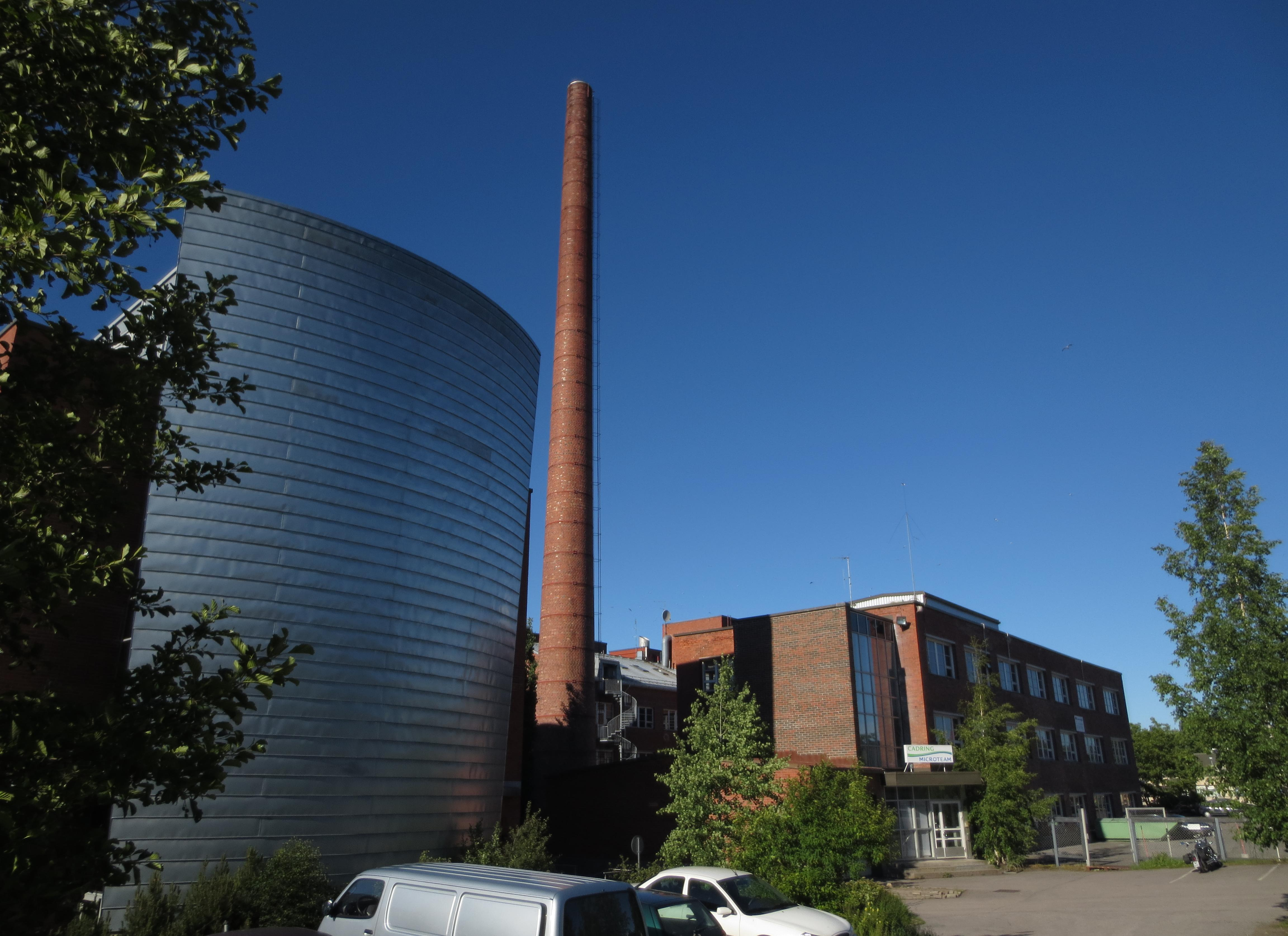 The former Sarvis factory in Tampere. Now an office complex